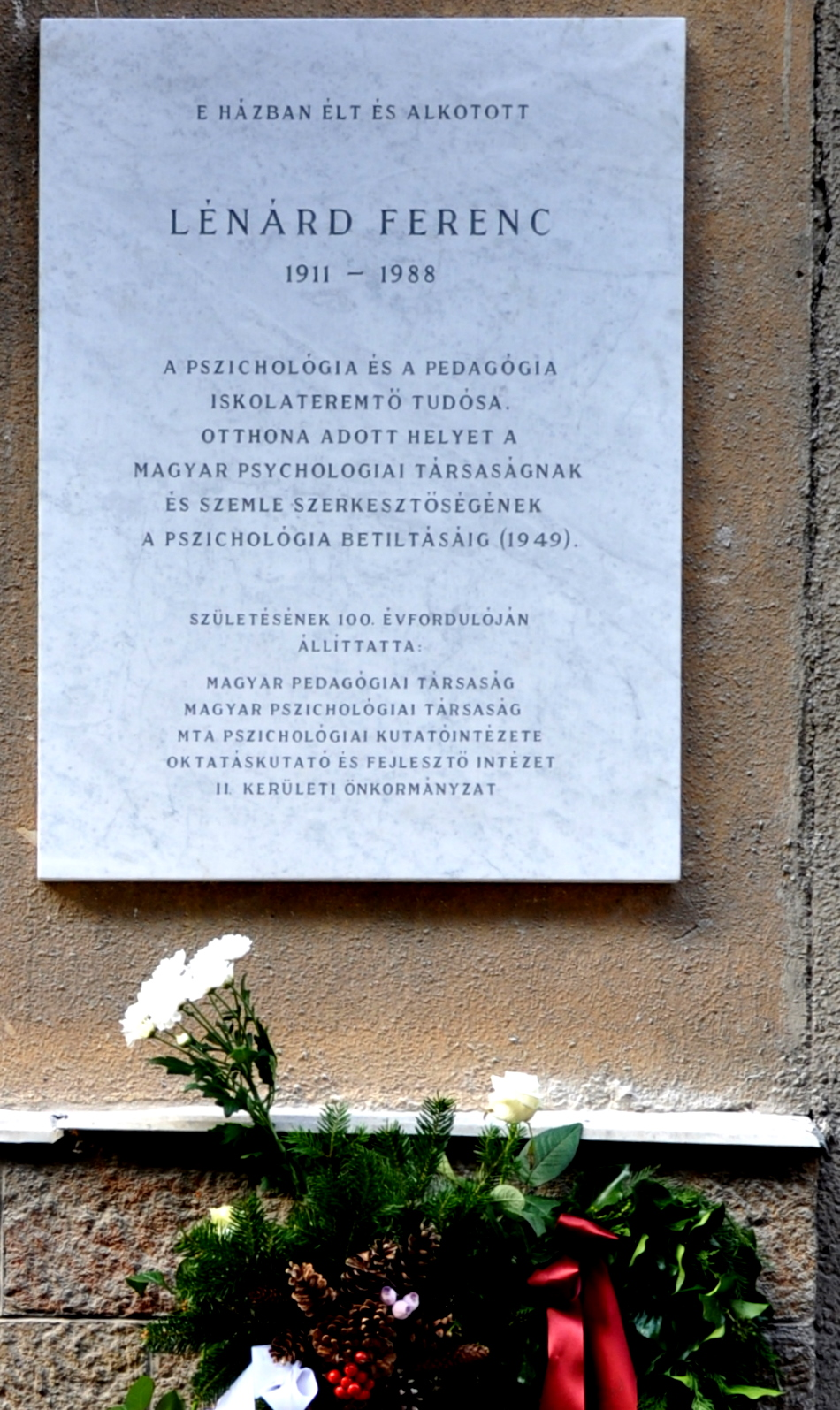 Ferenc Lénárd plaque in Budapest District II, Pengő Street No 5.